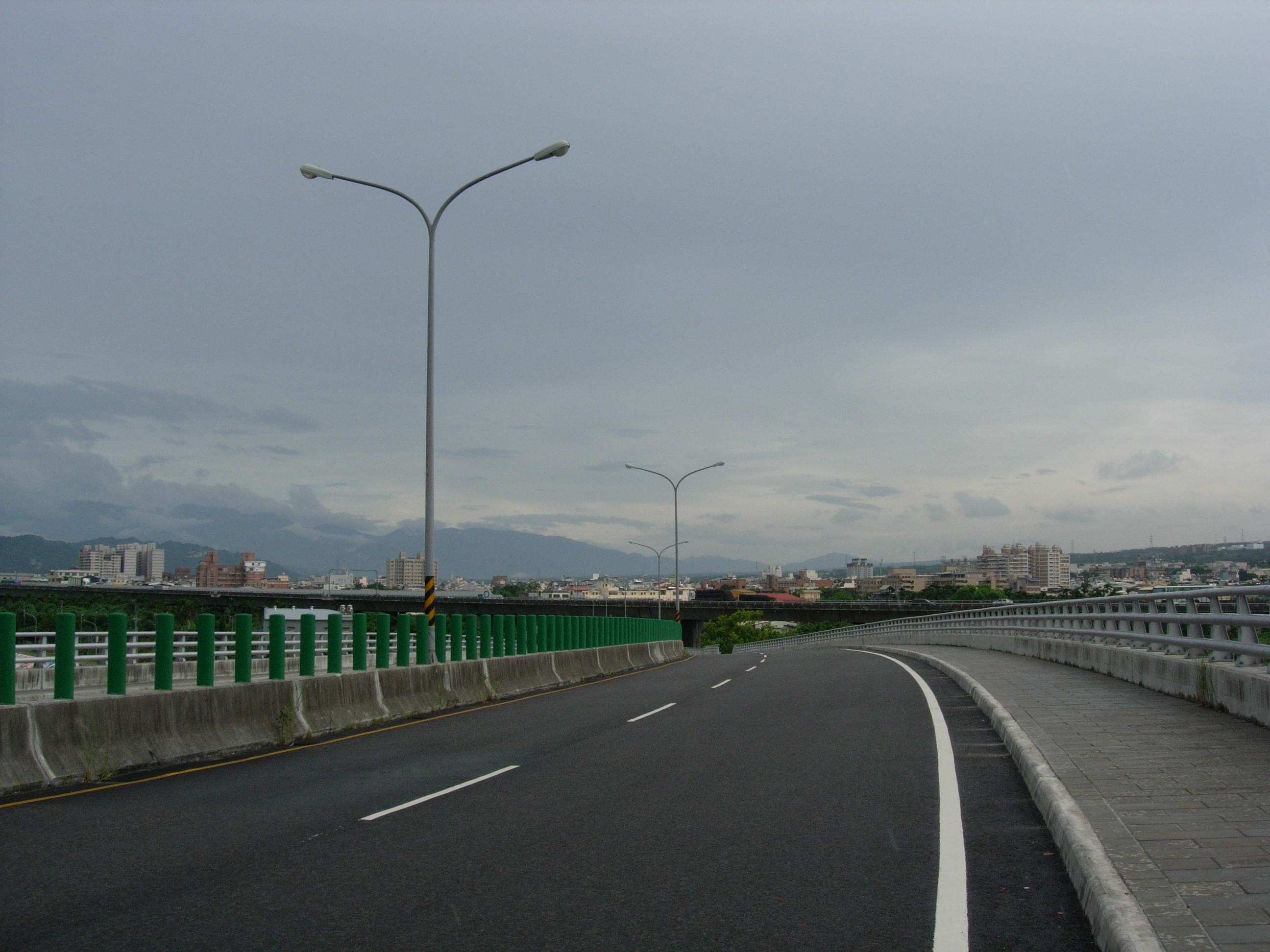 NantouAreaView